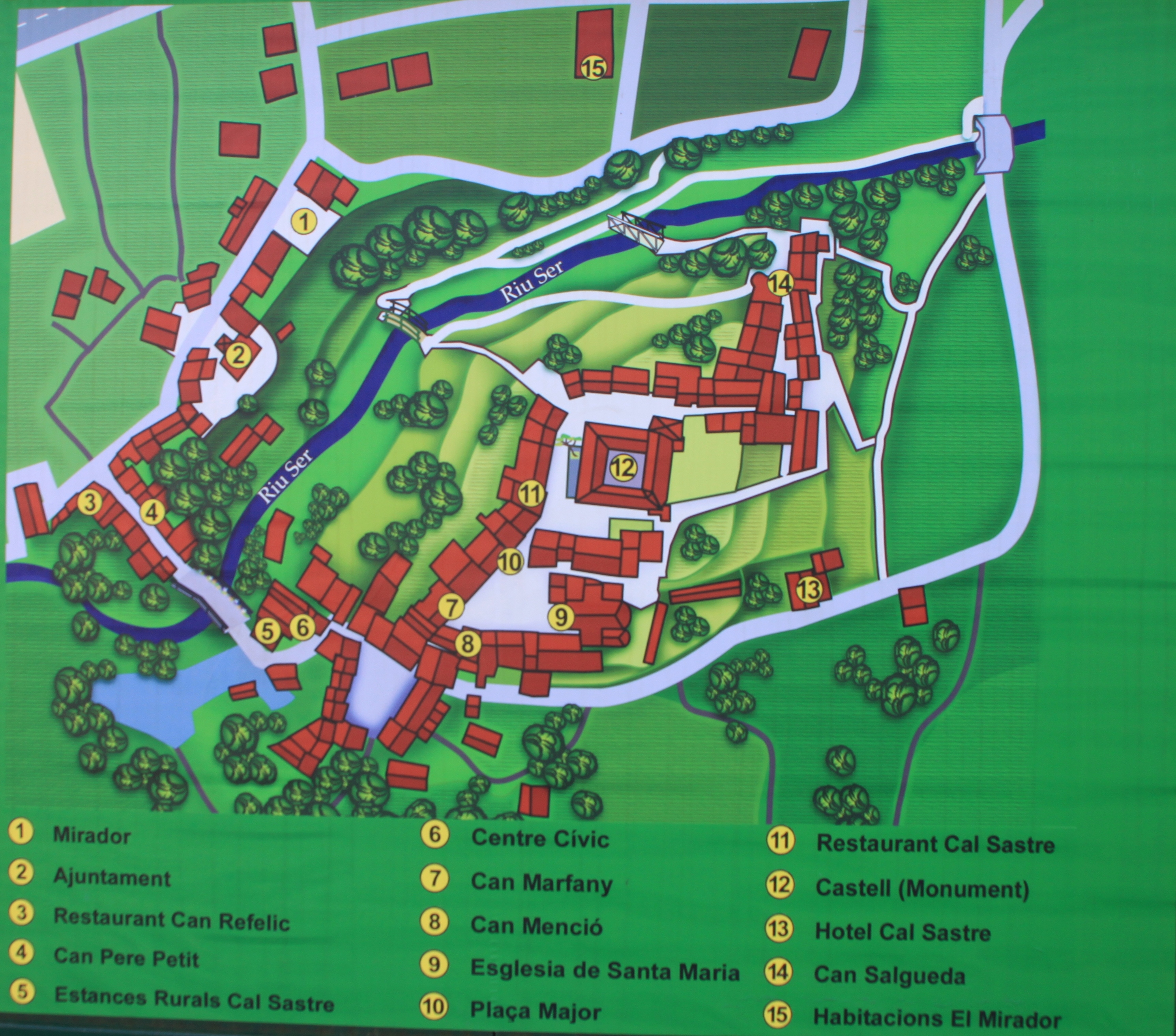 Map of Santa Pau, la Garrotxa, Catalonia.